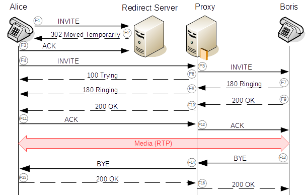 Example scenario of establish a connection with the participation of SIP Redirect Server and SIP Proxy